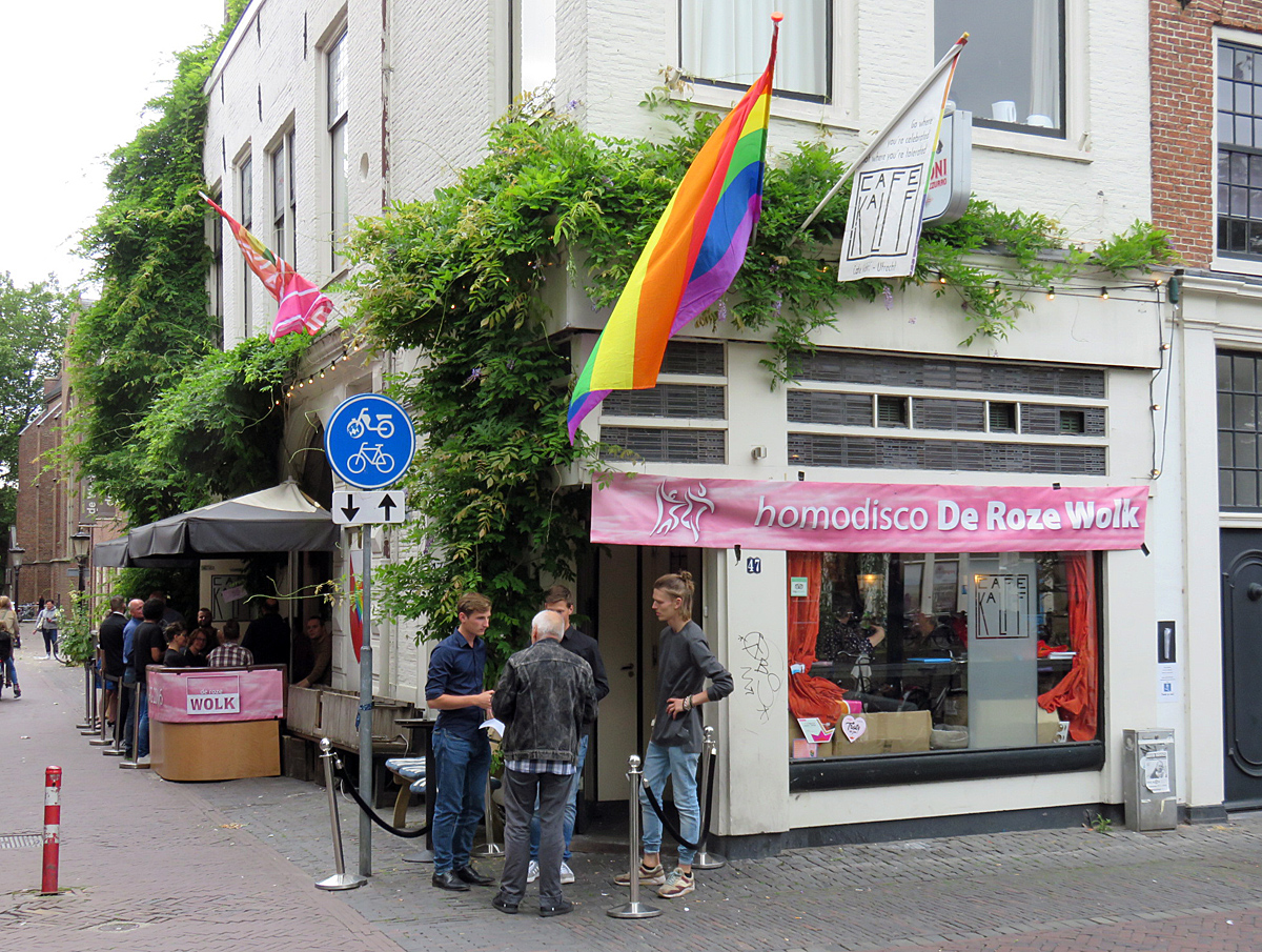 Gay bar Kalff at Oudegracht 47 in Utrecht, decorated for a party remembering the former gay disco De Roze Wolk (1982-2006), June 24, 2018.